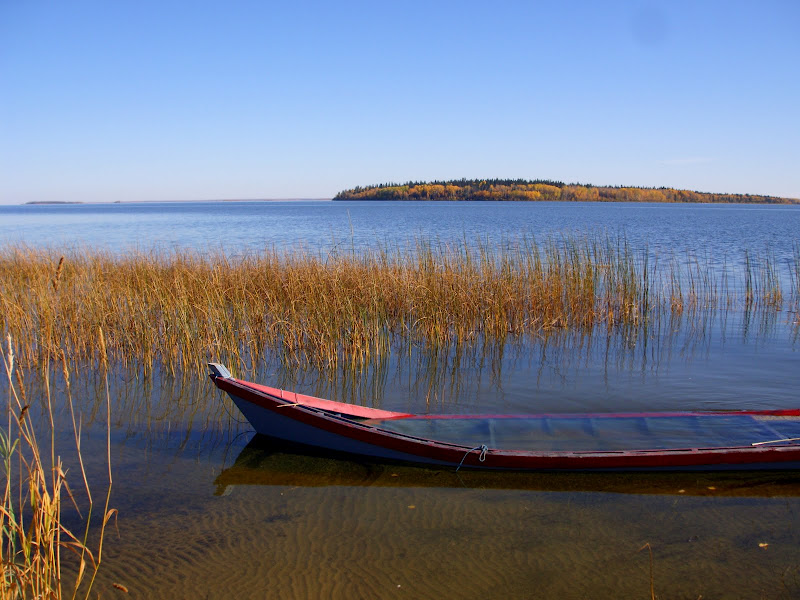 Churchiil Lake at Buffalo Narrows, Saskatchewan